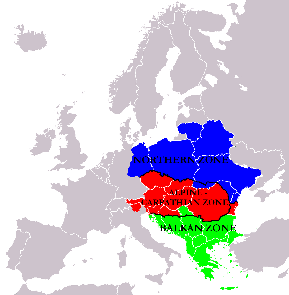 East Central Europe, according to Paul Robert Magocsi, Historical Atlas of East Central Europe, University of Washington Press. Seattle & London. 1993 (See the information, the reference and the bibliography)